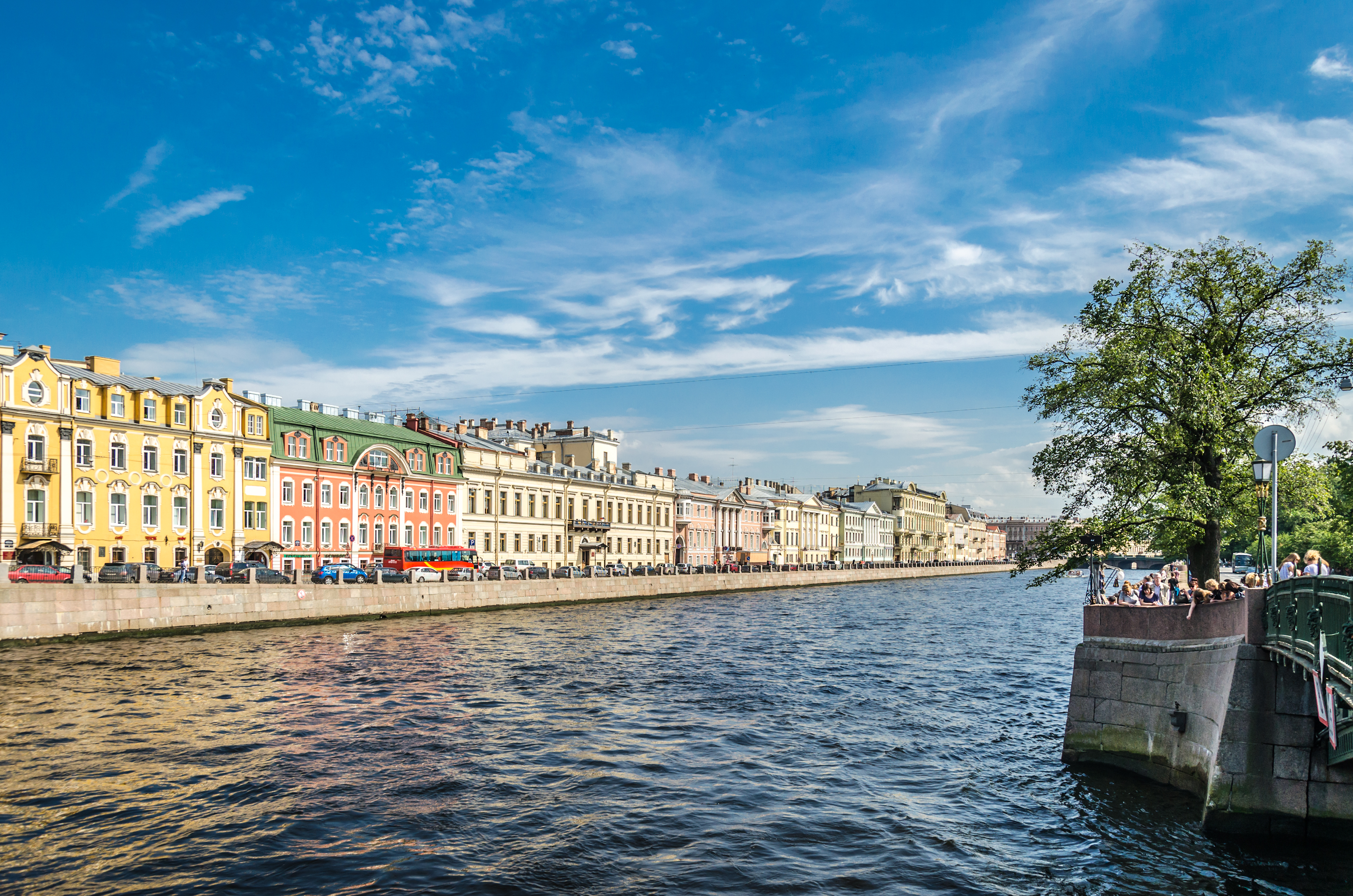 Fontanka river embankment near St. Michael's Castle in Saint Petersburg